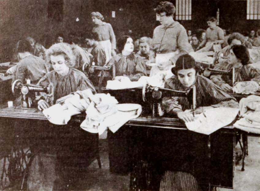 Still from the American film Tarnished Reputations (1920) with Dolores Cassinelli in the prison scene, on page 54 of the March 20, 1920 Exhibitors Herald.